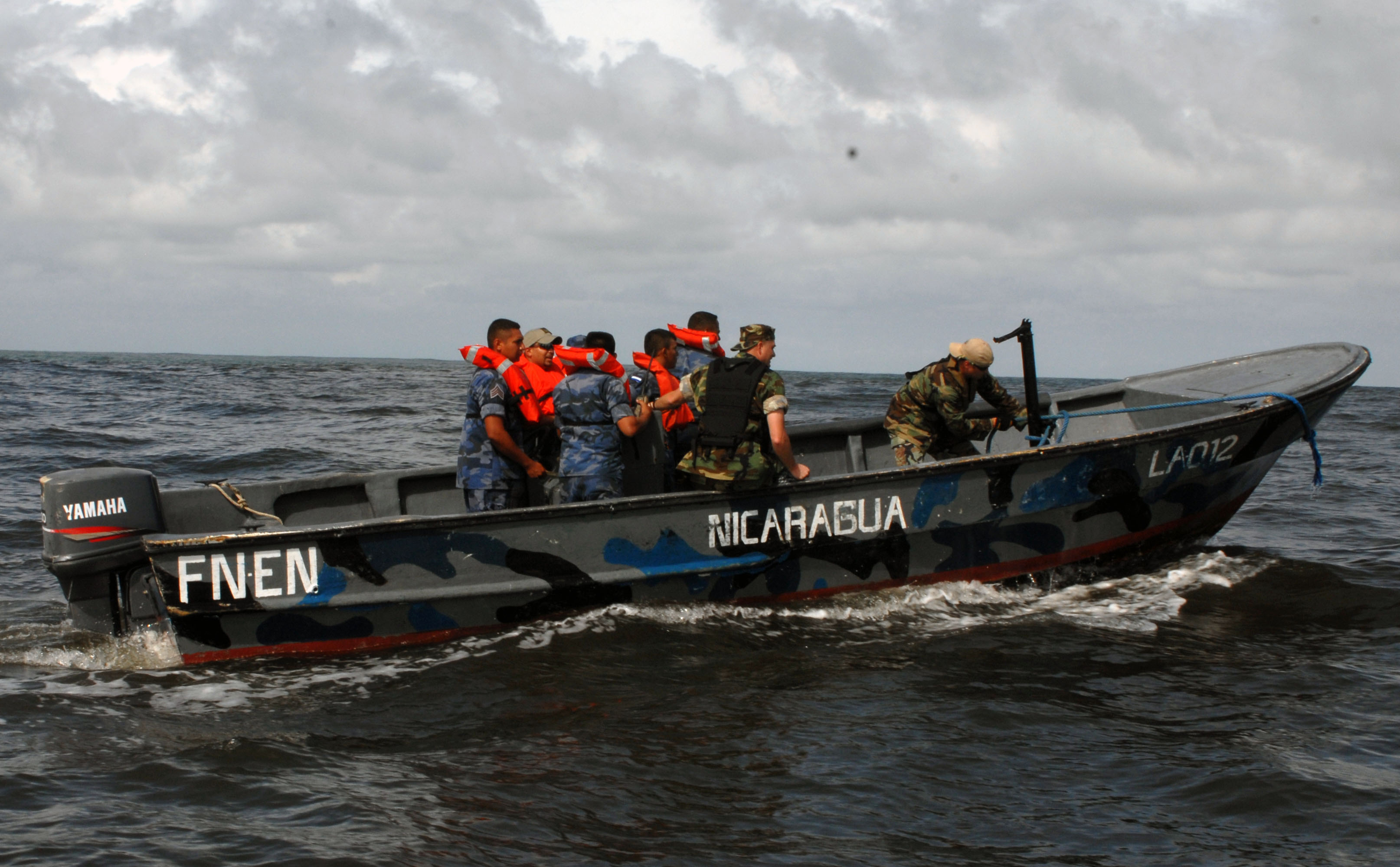 CORINTO, Nicaragua, (June 15, 2010) Sailors deployed aboard High Speed Vessel Swift (HSV 2) and members of the Nicaraguan navy conduct visit, board, search and seizure subject matter expert exchange operations. Swift is deployed supporting Southern Partnership Station 2010, an annual deployment of U.S. military training teams to the U.S. Southern Command area of responsibility in the Caribbean and Latin America. (U.S. Navy photo by Mass Communication Specialist 1st Class Rachael L. Leslie/Released)